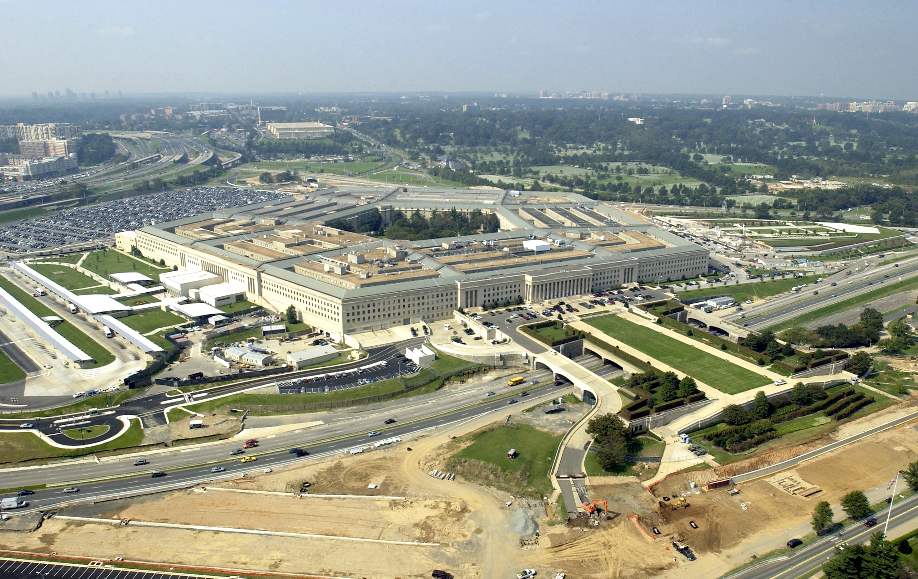 This aerial view of the river entrance of the Pentagon shows some of the ongoing renovation that will continue for several more years. The renovation of wedges 2-5 involves four million square feet of space in the Pentagon. The project brings all remaining un-renovated areas of the building into compliance with modern building, life safety, ADA and fire codes. Work includes removal of all hazardous materials, replacement of all building systems, addition of new elevators and escalators to improve vertical circulation, and installation of new security and telecommunications systems. Renovated spaces will be modern, efficient, and flexible. The project is on an accelerated schedule for completion in December 2010, four years sooner than originally planned. DoD photo by Tech. Sgt. Andy Dunaway.